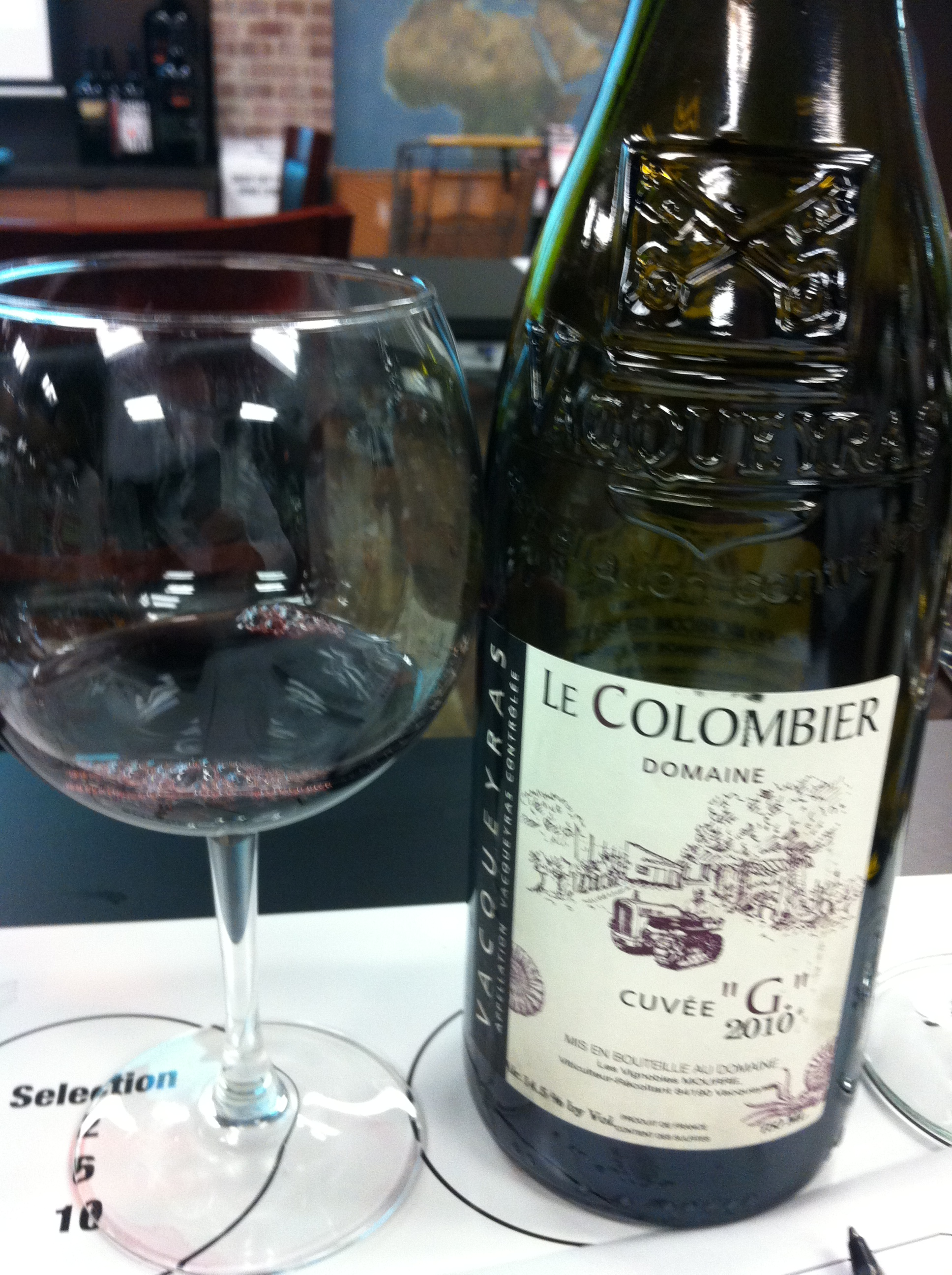 French red blend from the southern Rhone region of Vacqueyras.